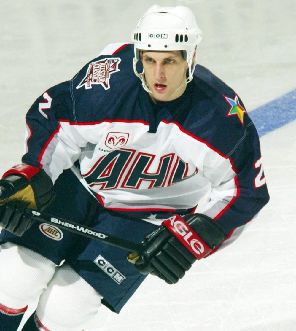 Photo: Jason Pulver/AHL